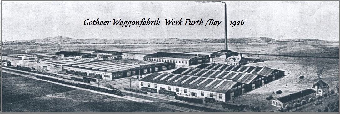 Gothaer Waggonfabrik Fürth 1926